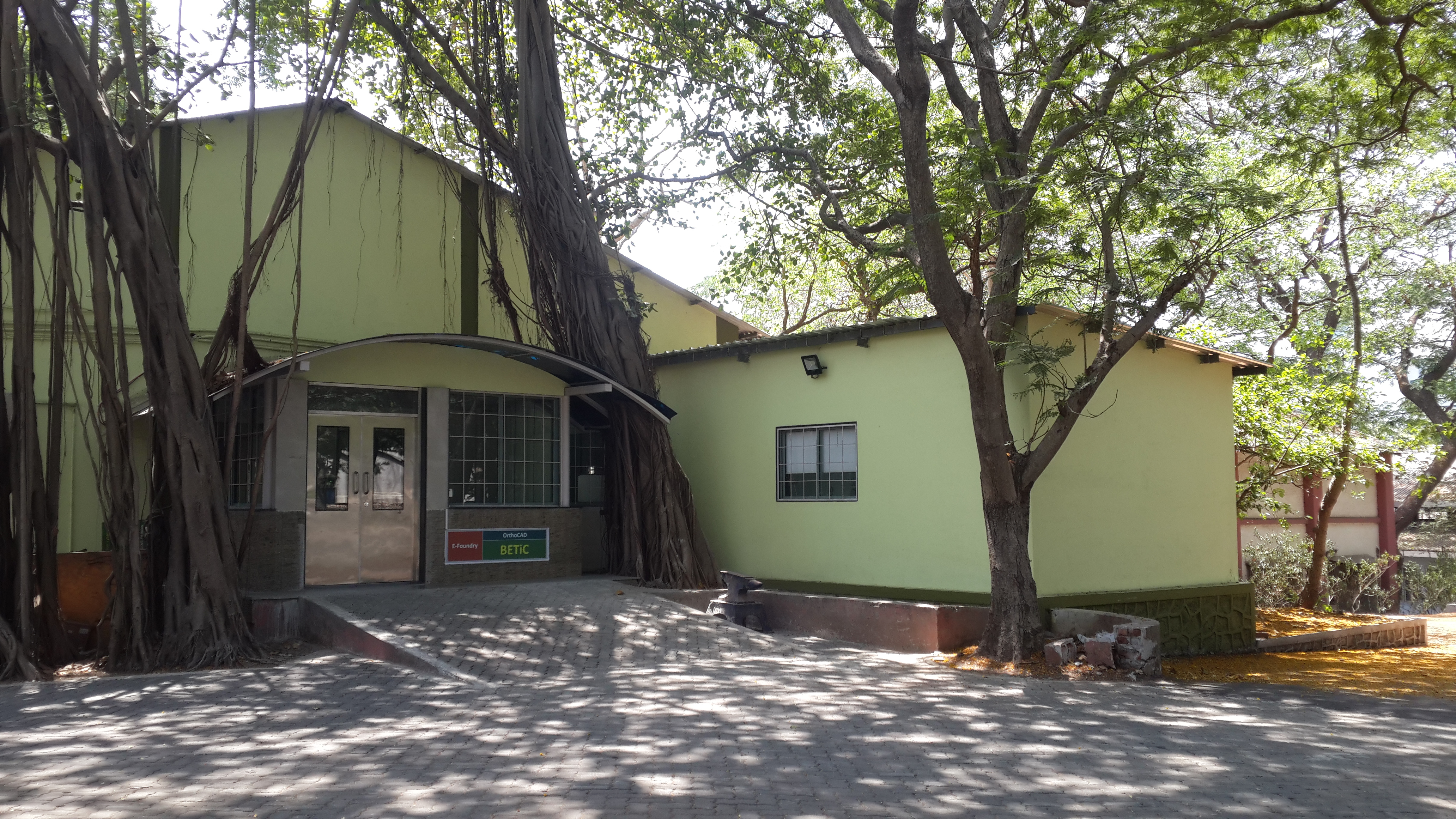 Photo of BETiC Lab at IIT Bombay, 2016